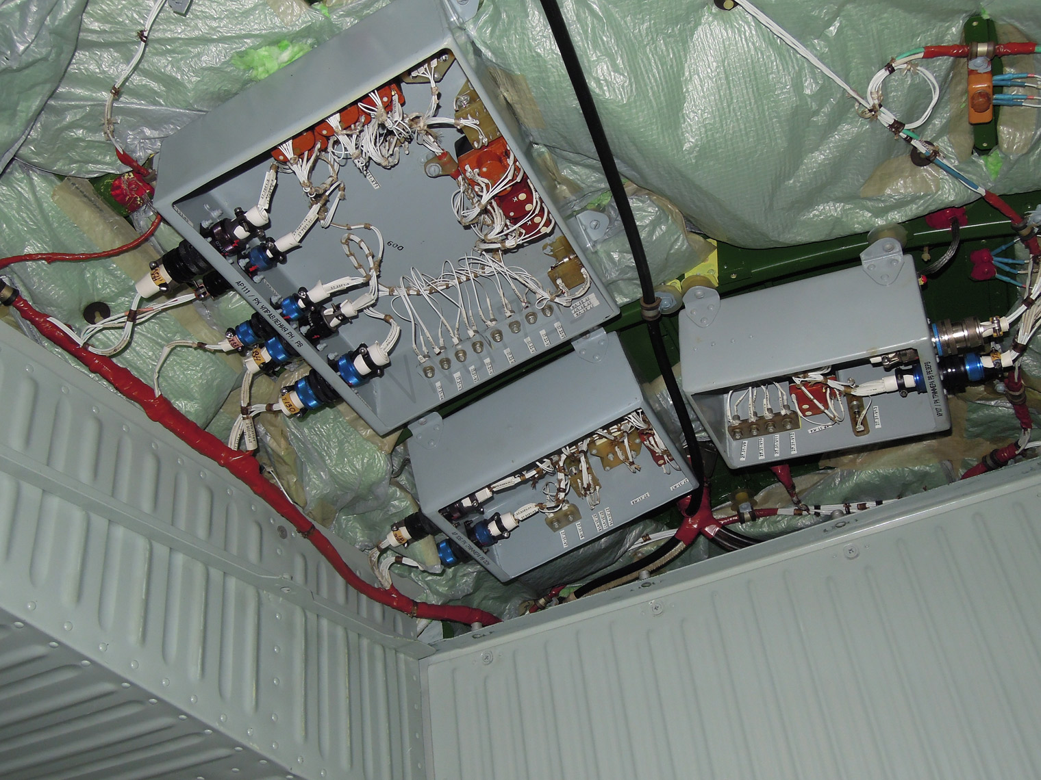 Junction boxes of elevator and rudder control, An-140-100 airplane